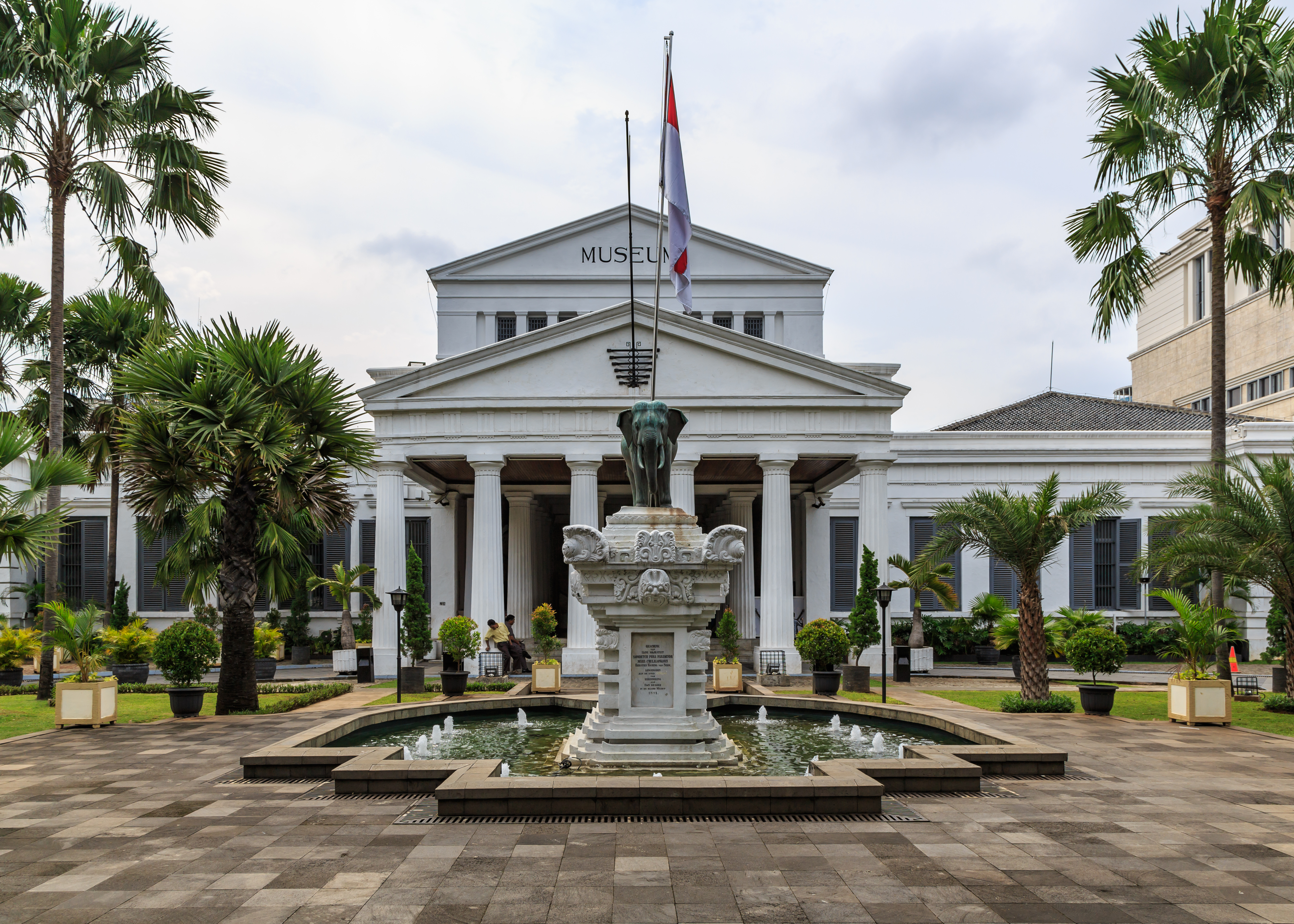 Jakarta, Indonesia: The National Museum Jakarta, a dutch colonial architecture.